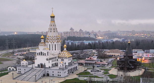 Church of All Saints in Minsk, Belarus